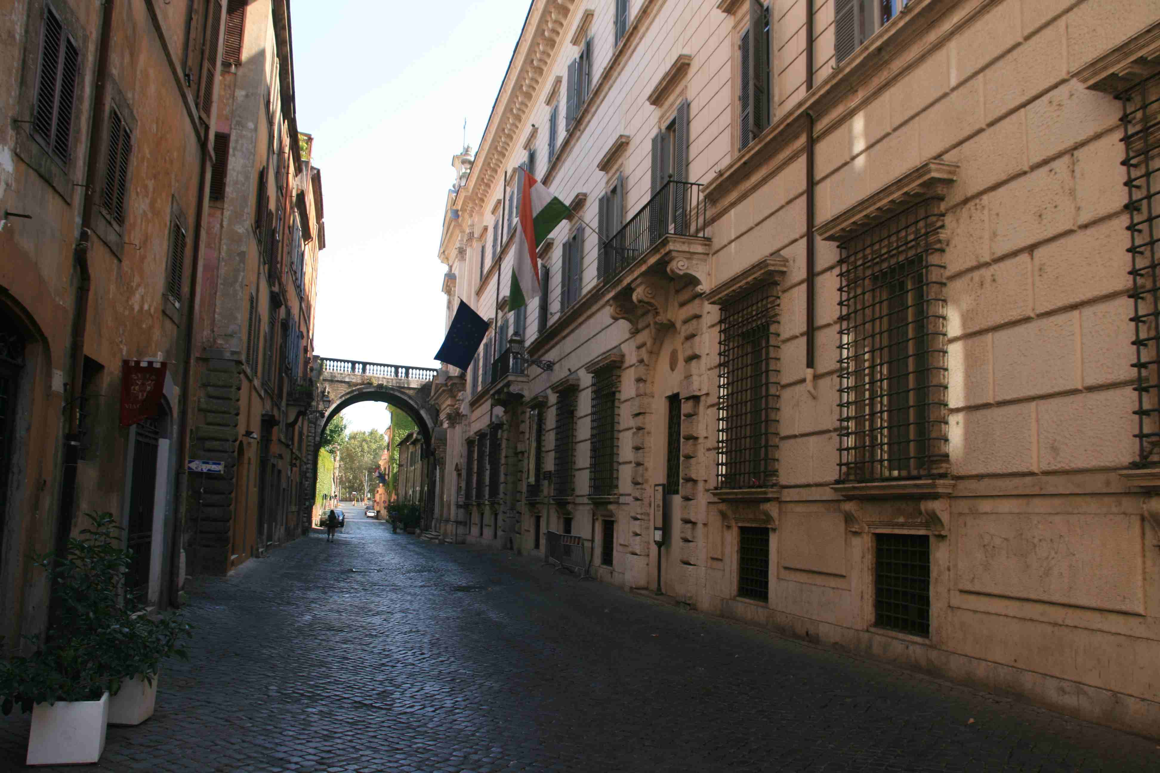 Via Giulia in Rome, Rome.